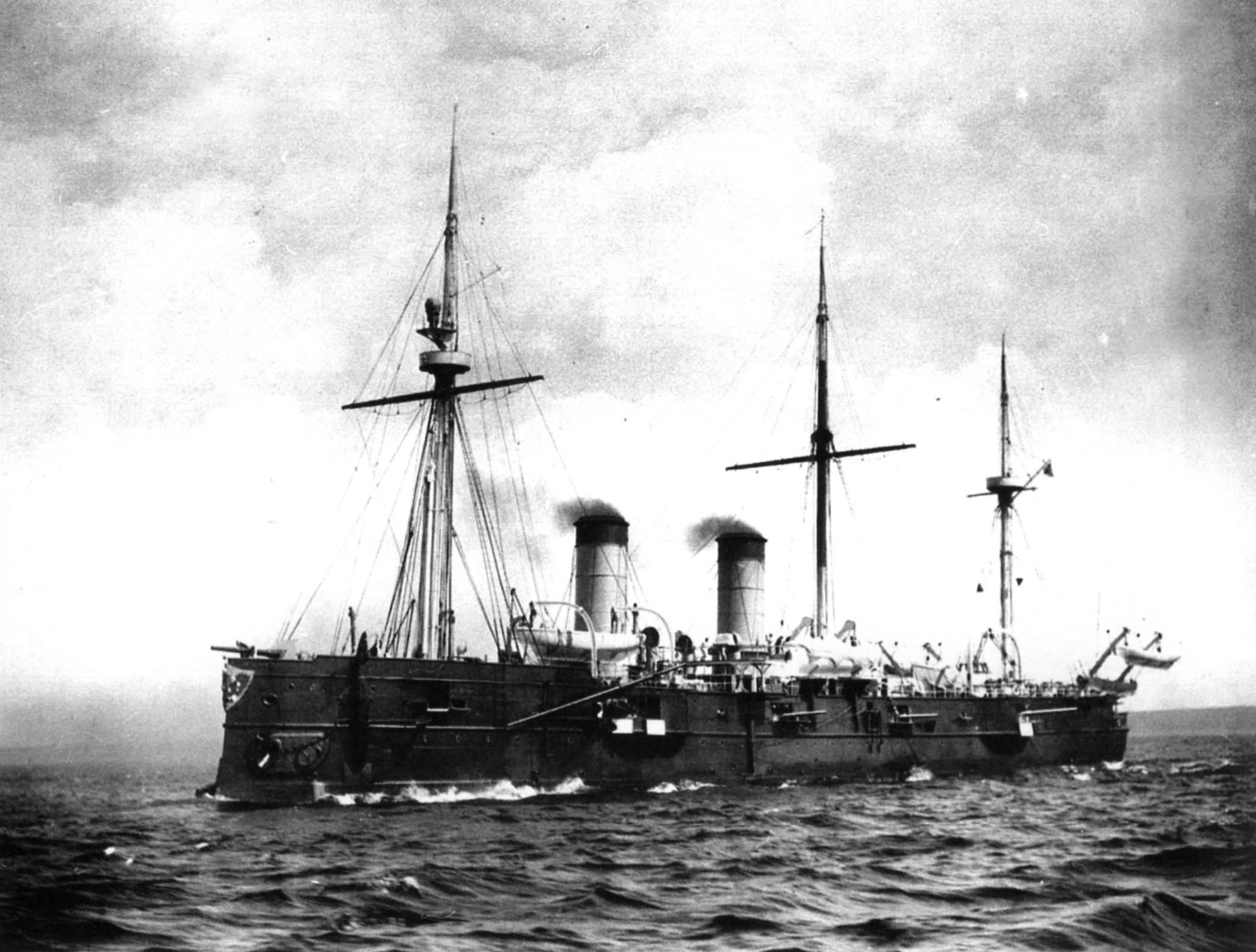 Imperial Russian cruiser Vladimir Monomakh.